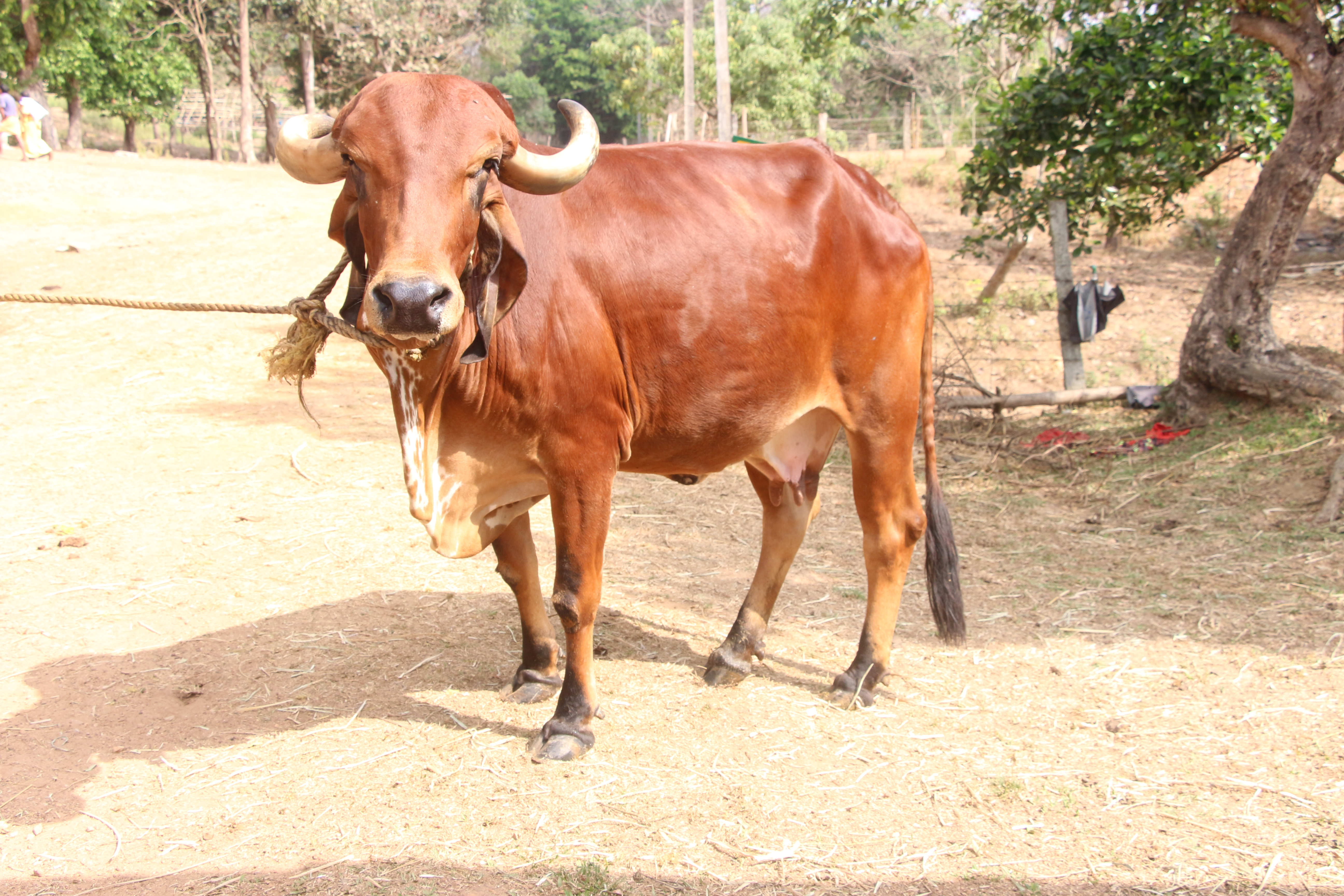 Indian cow breed Gir ಕನ್ನಡ: ಭಾರತೀಯ ಗೋತಳಿ ಗಿರ್